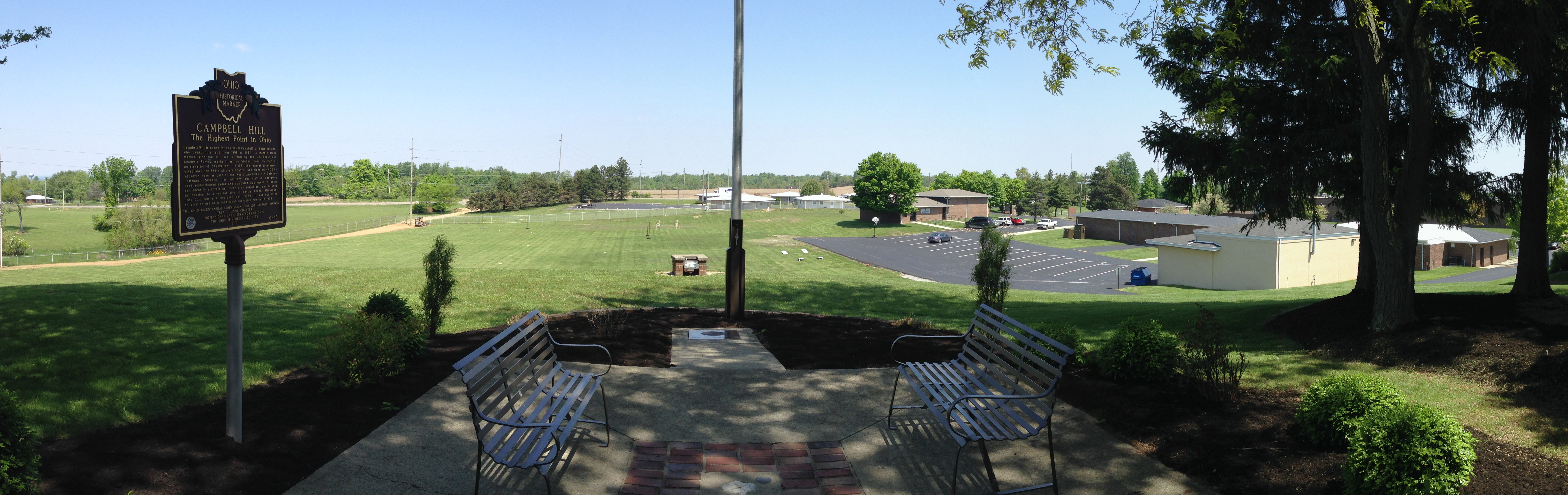 View from the summit of Campbell Hill, the highest point in Ohio.